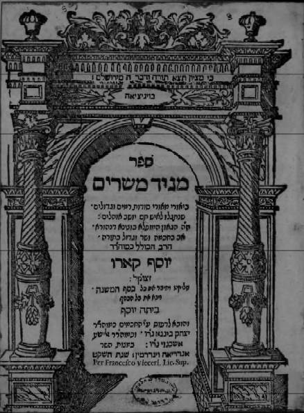 Title page of the first edition of Joseph Karo: Magid Meisharim.